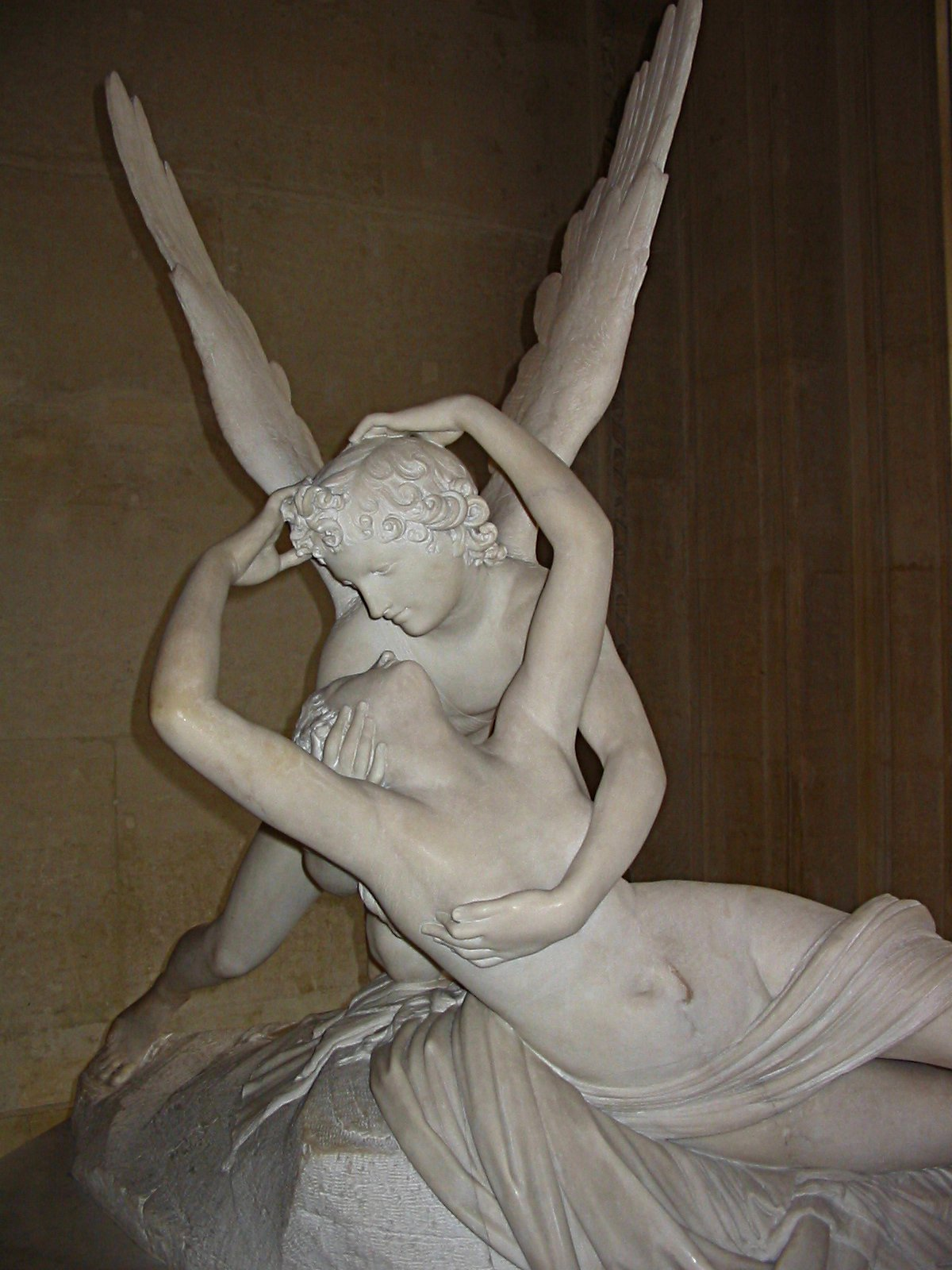 Antonio Canova sculpture work Psyche Revived By Cupids Kiss. Photo taken by wikipedian User:Pufacz in Louvre.